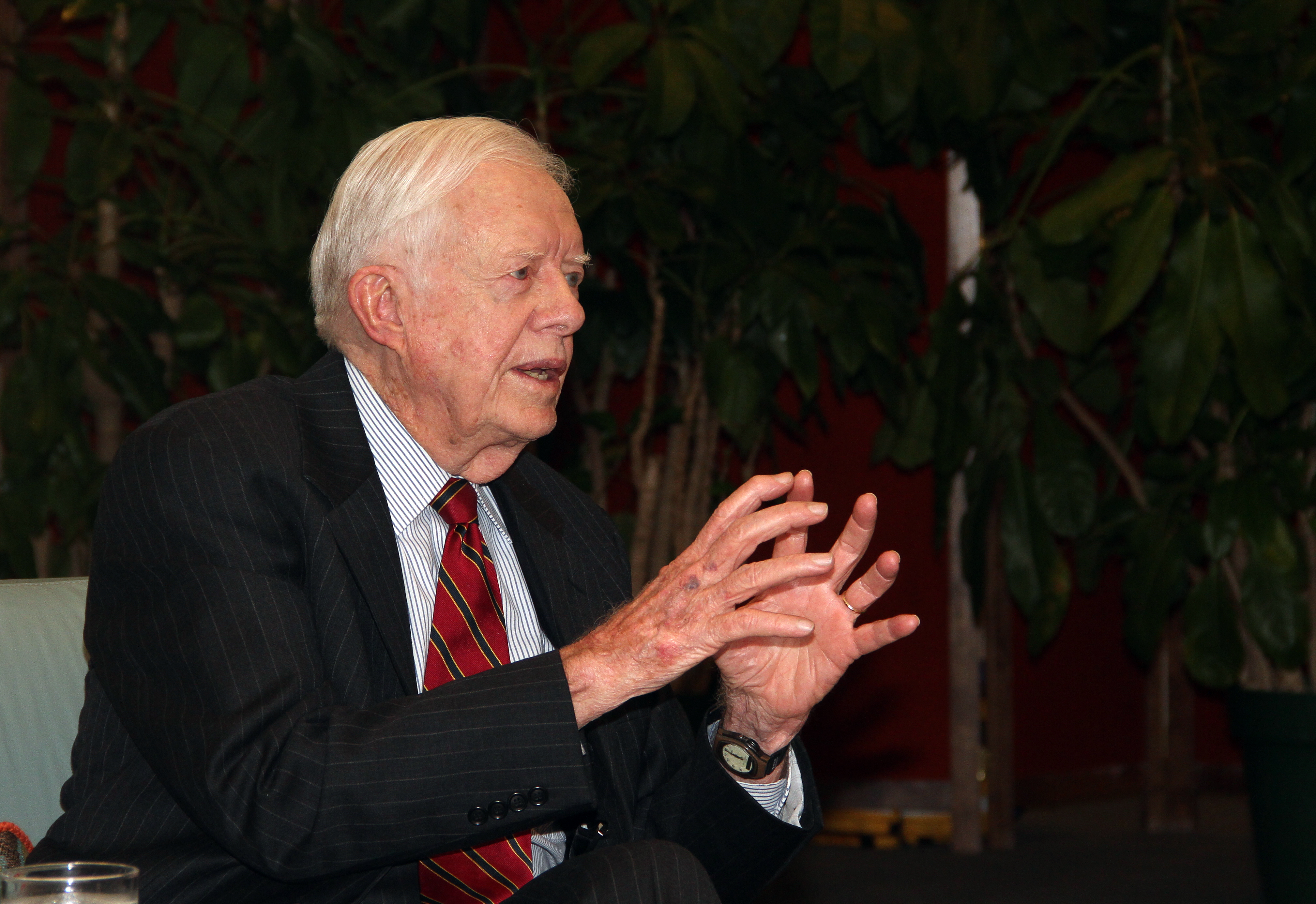 Jimmy Carter in conversation at the LBJ Library on February 15, 2011